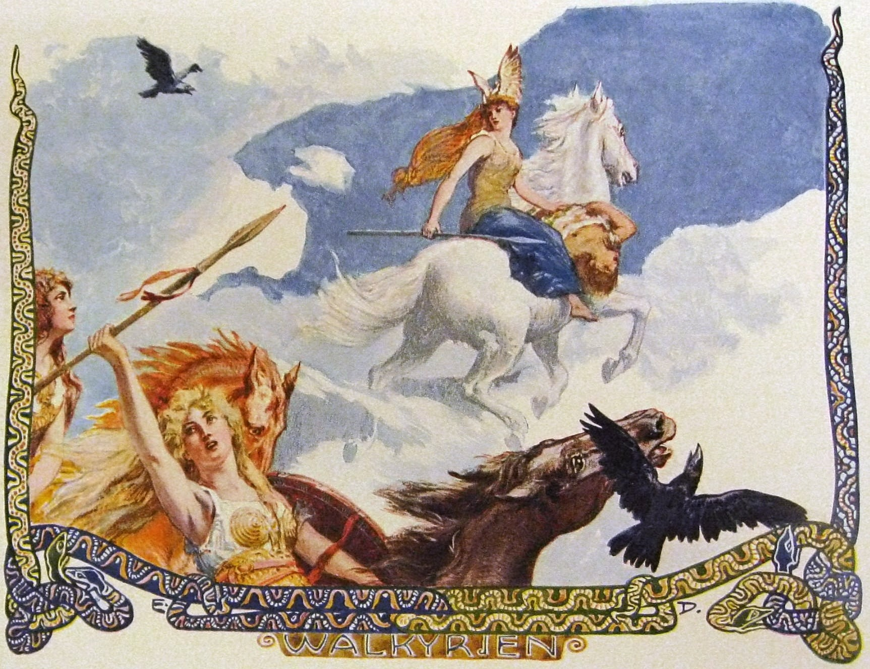 In the air, among clouds, and upon a white horse, a valkyrie rides with the corpse of a man. Flanked by two ravens, two other valkyries ride behind her, one raising a spear.